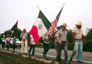 FLOC supporters march to Camden New Jersey to pressure Campbells Soup headquartes and Philadelphia National Bank.